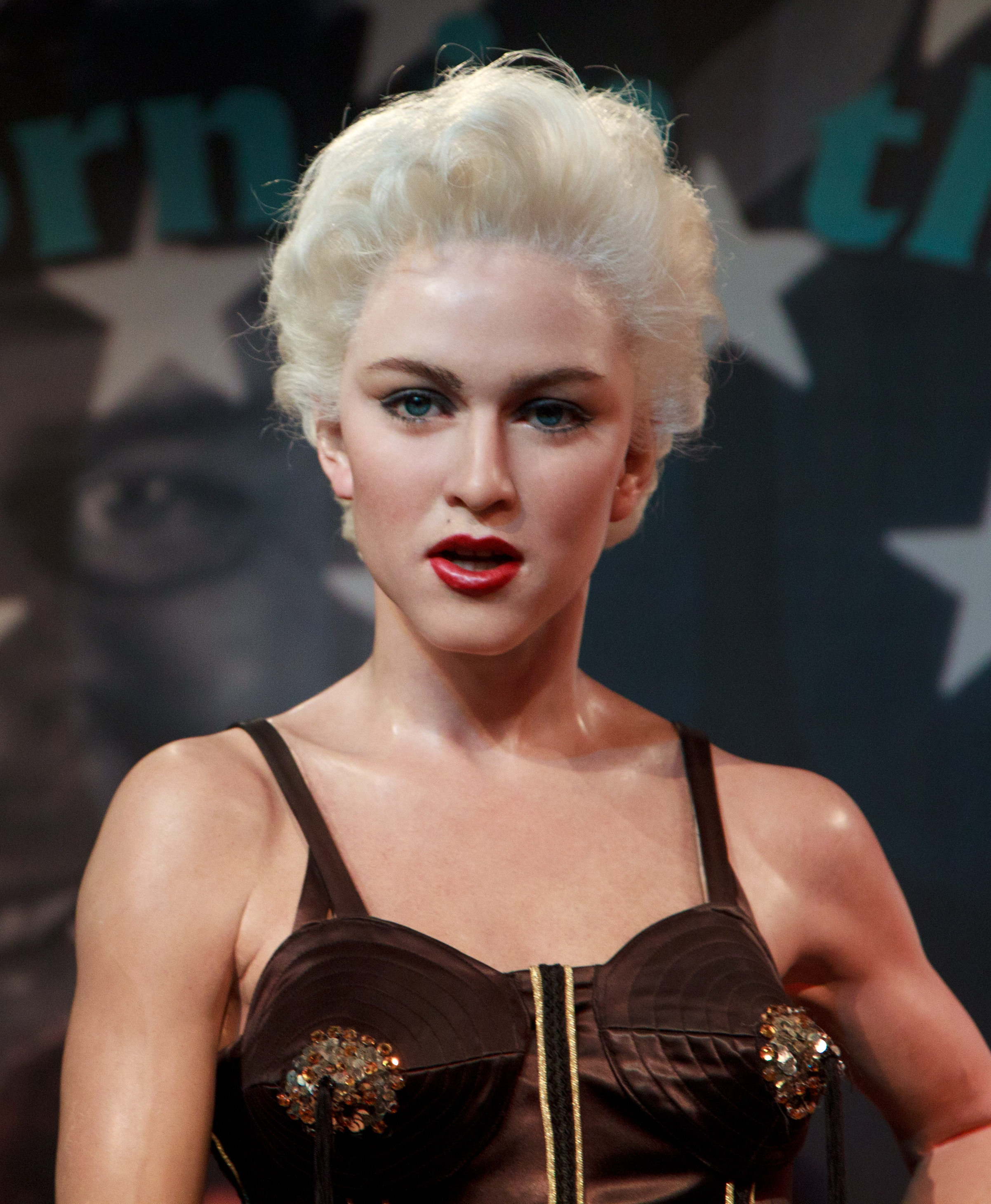 An Open Your Heart Wax Statue.